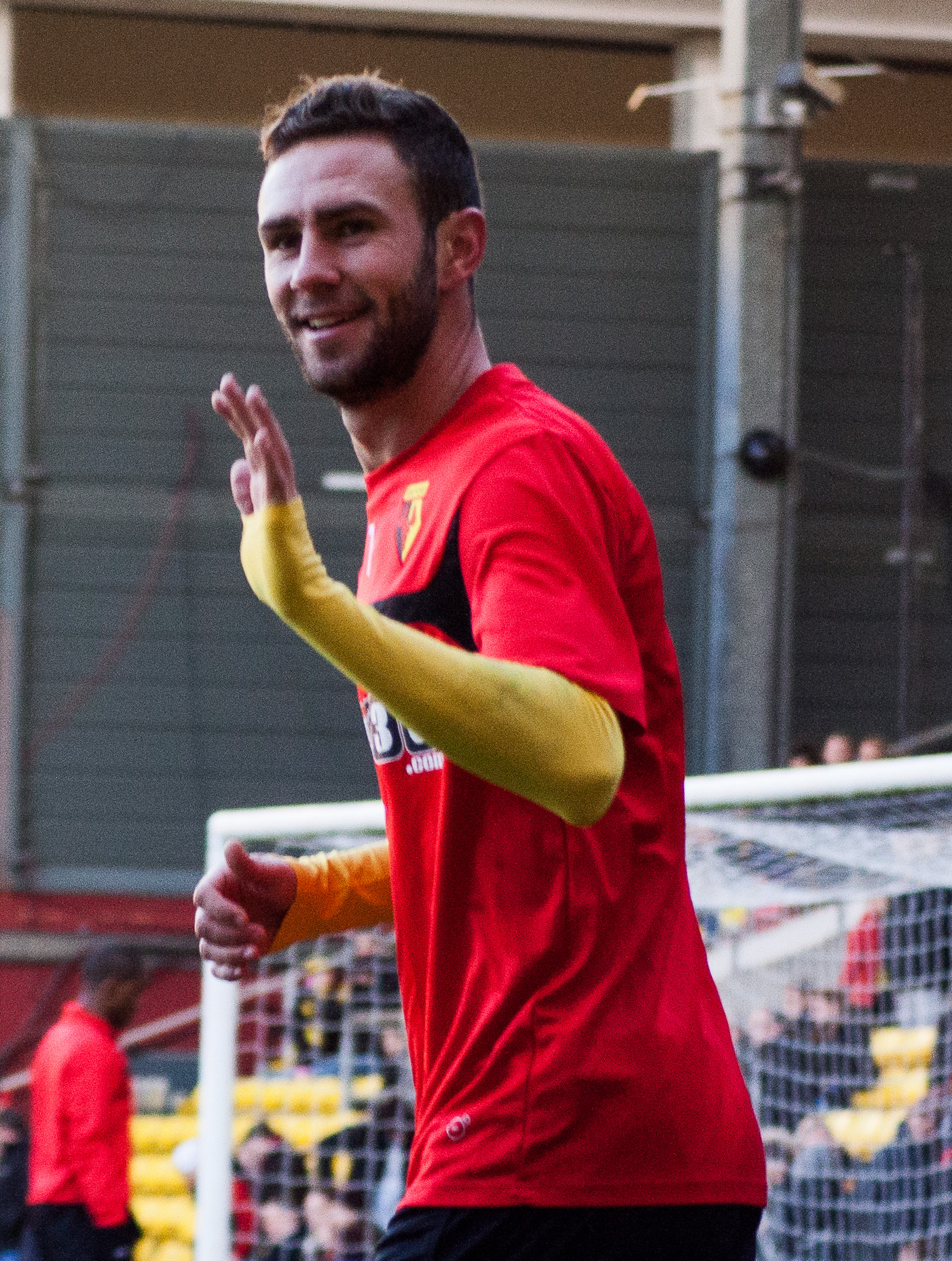 Miguel Layun warming-up for Watford FC